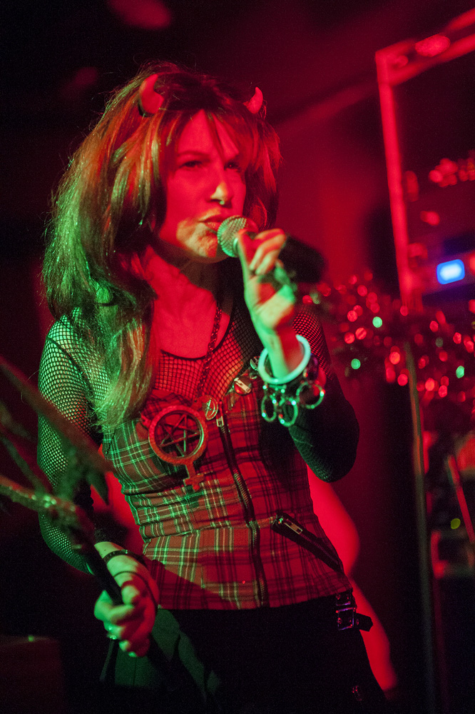 Karla LaVey, photographed Christmas Day 2012 at 'Karla LaVey's Black XMass' - an annual music and performance event she has hosted since 1998. Photograph by Neil Motteram.